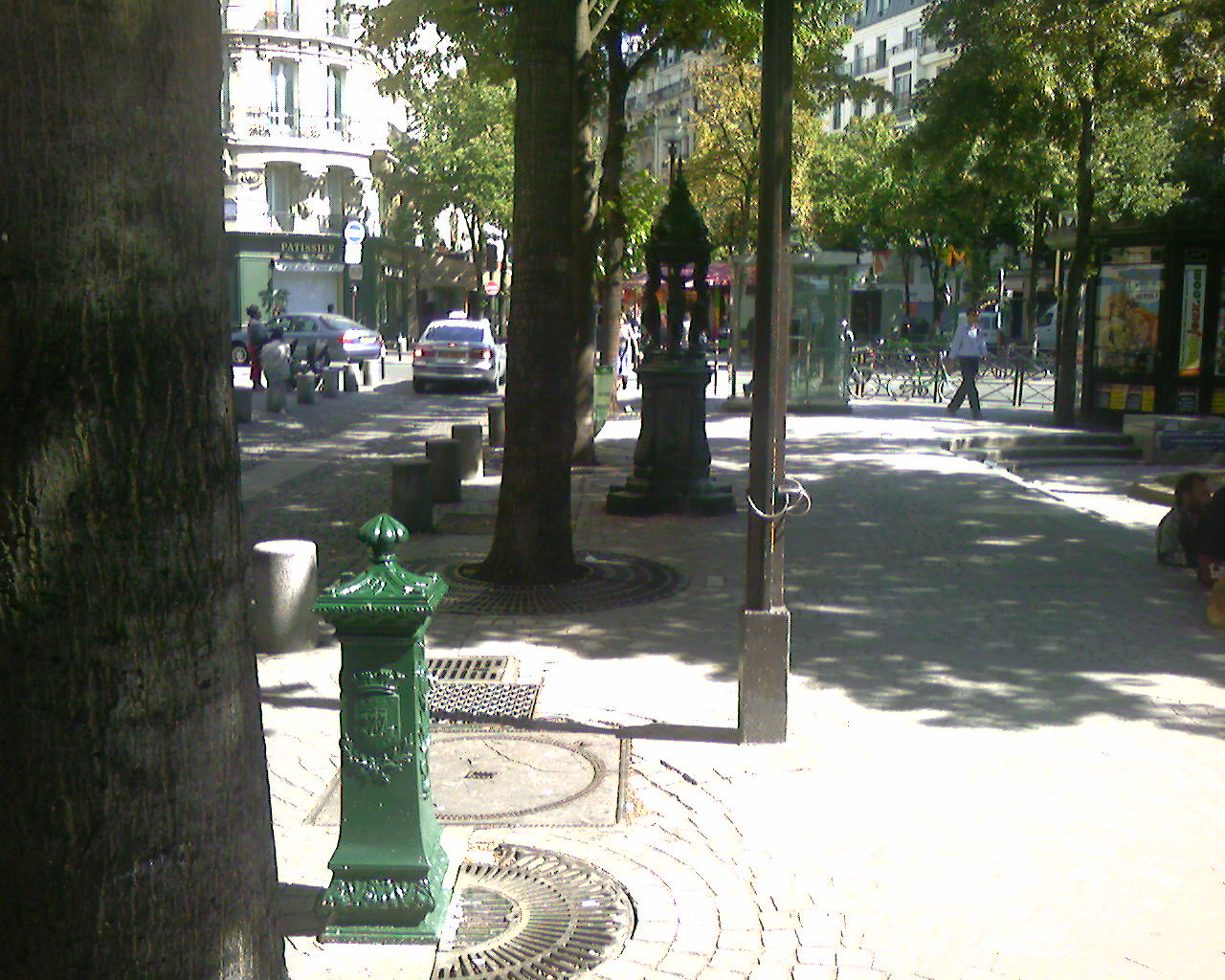 Small and big Wallace Fountains in Paris